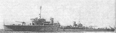 The Soviet project 2 guard ship Uragan.